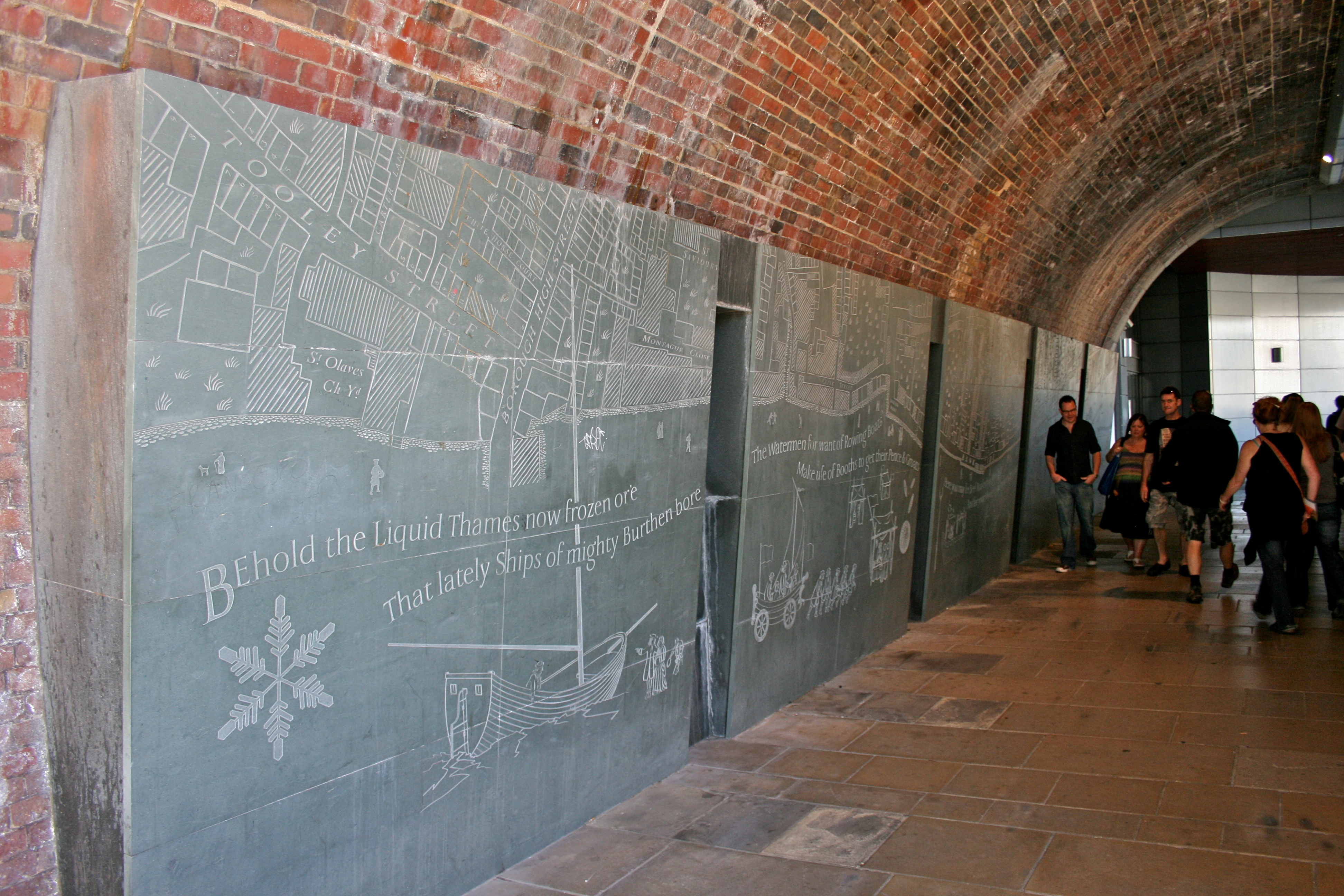 Southwark engraving about the River Thames frost fairs.